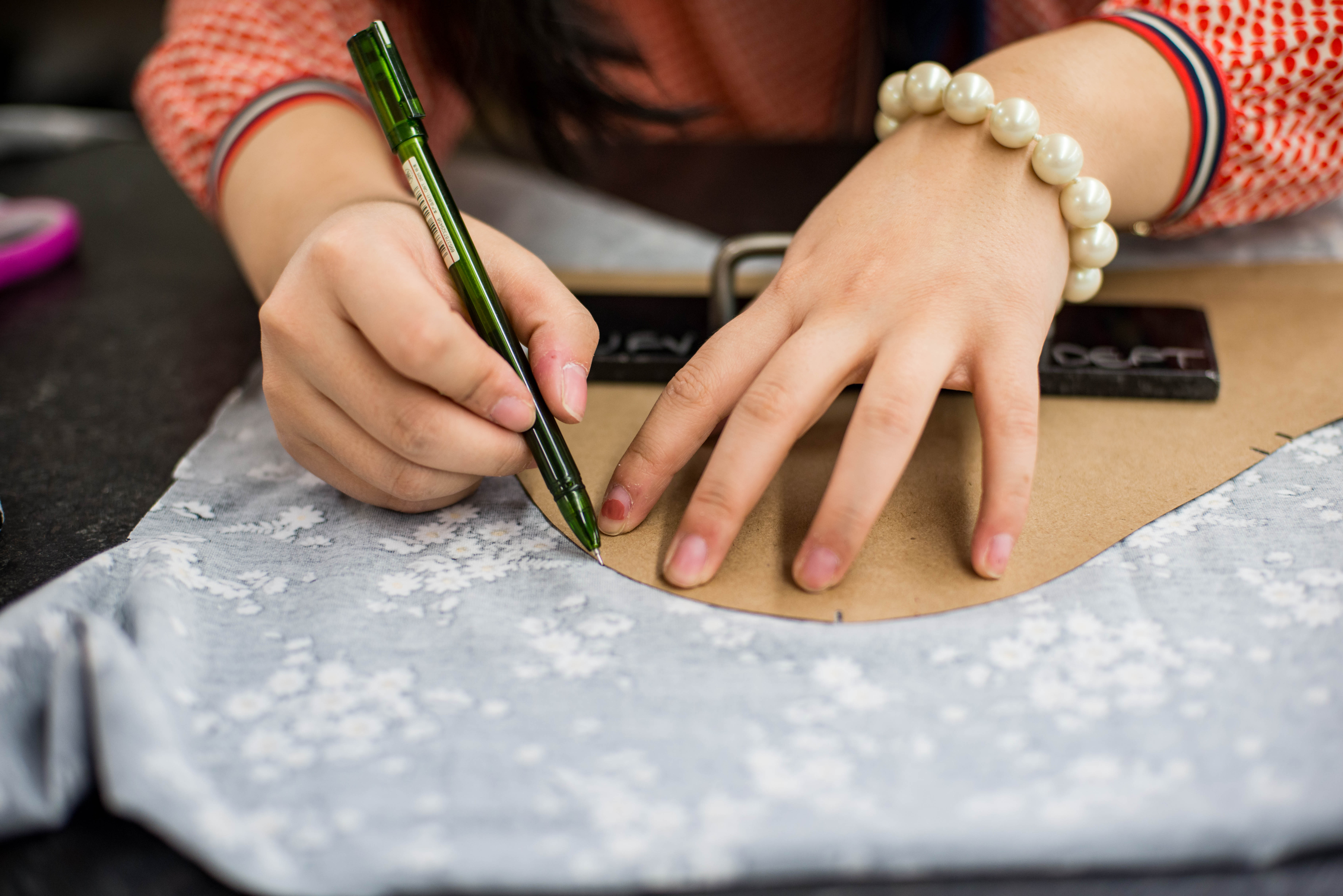 2016 Fashion Design students